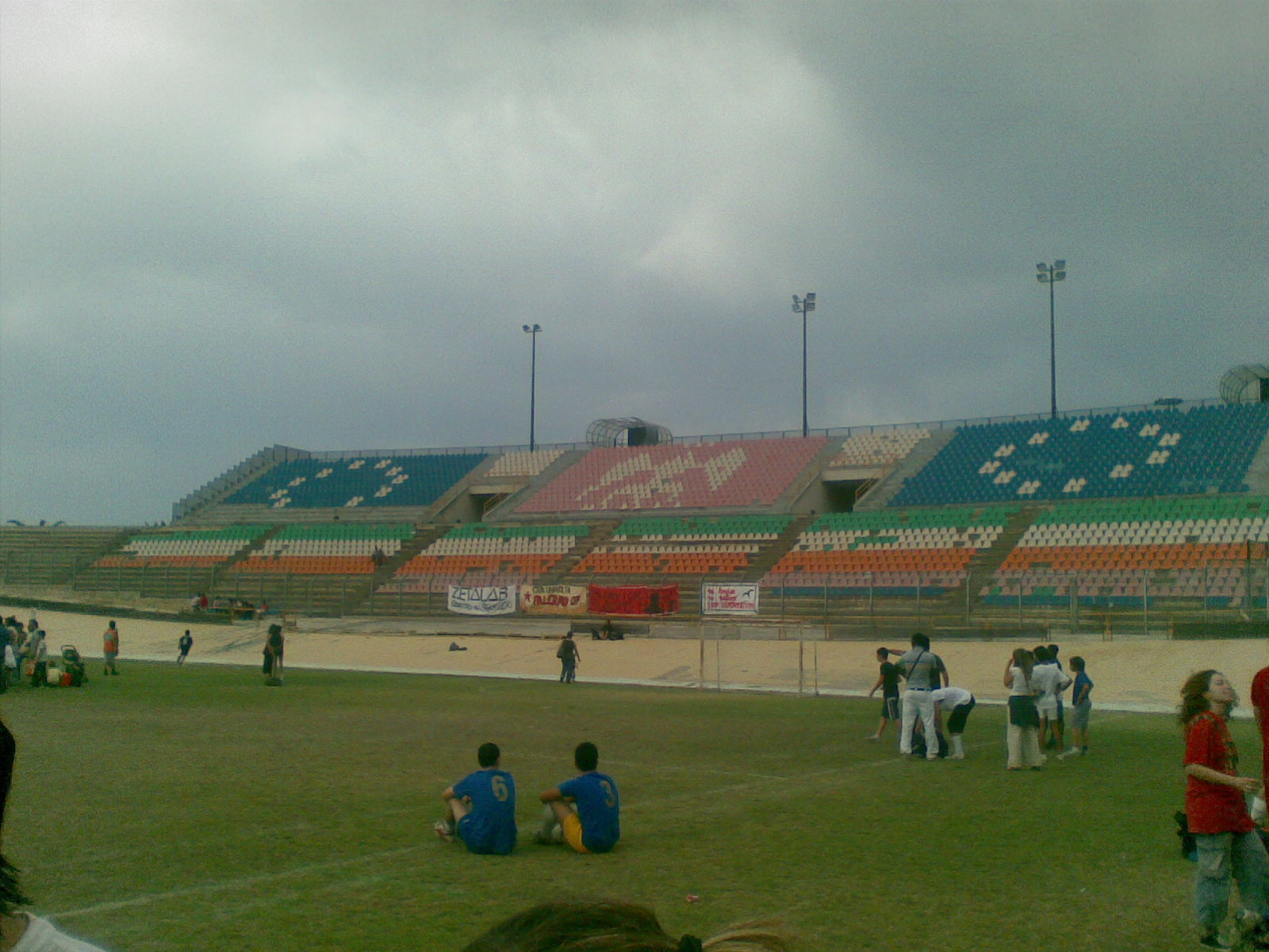 The Velodrom Paolo Borsellino